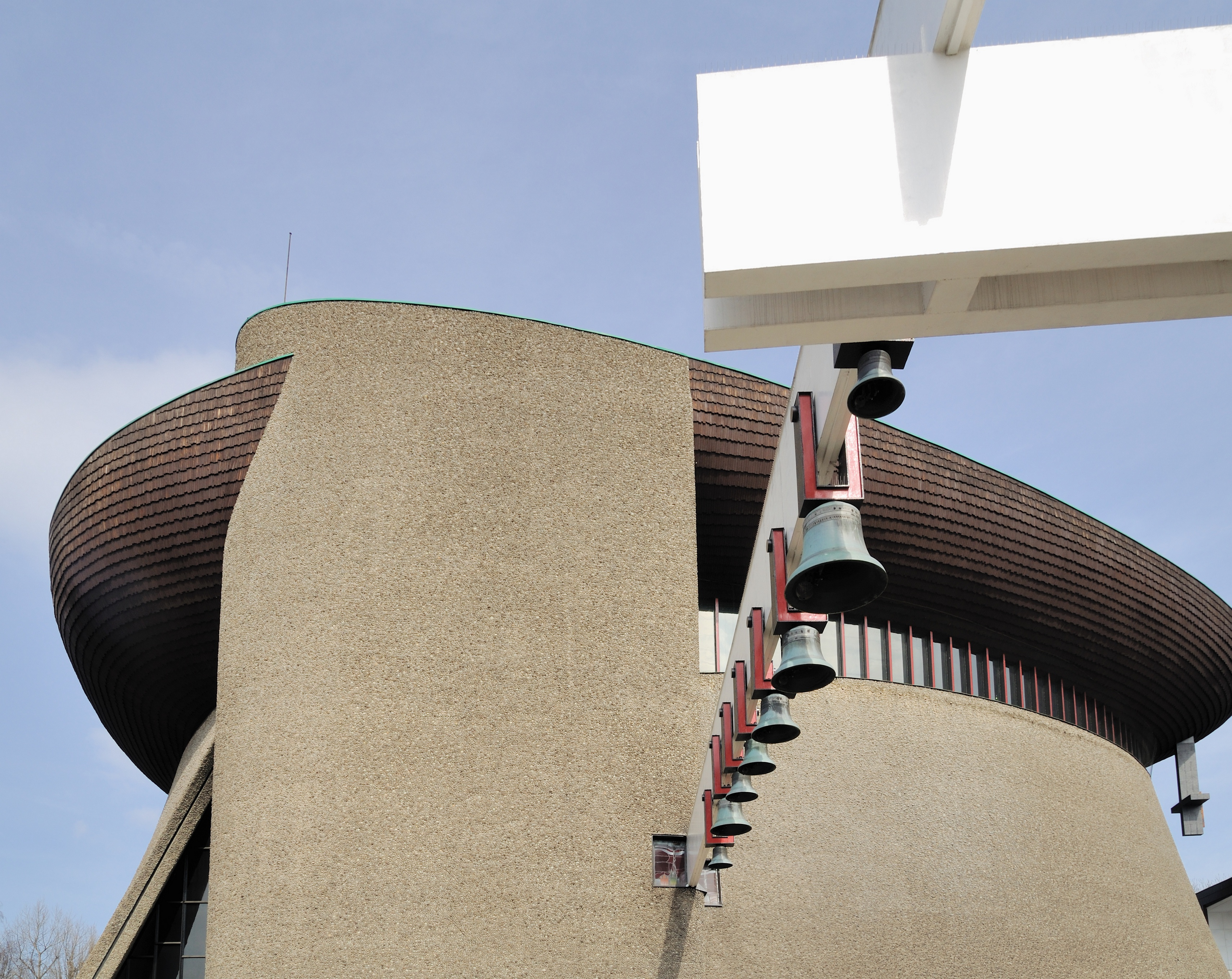 Kraków: The Lord's Ark church